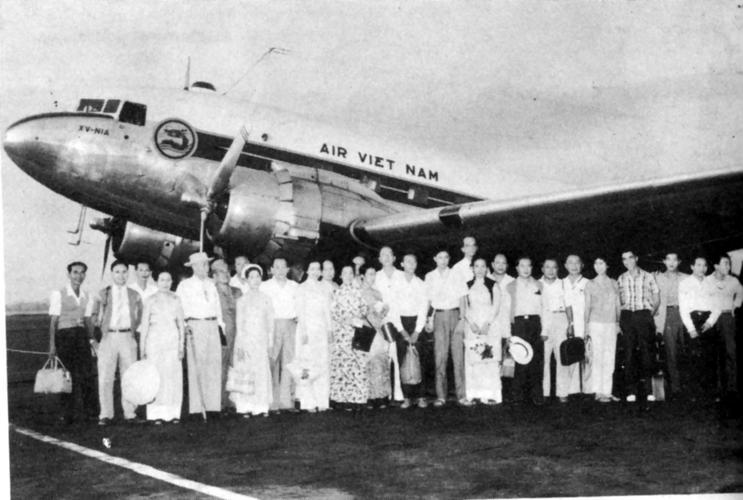 Air Vietnam plane and passengers, 1961.